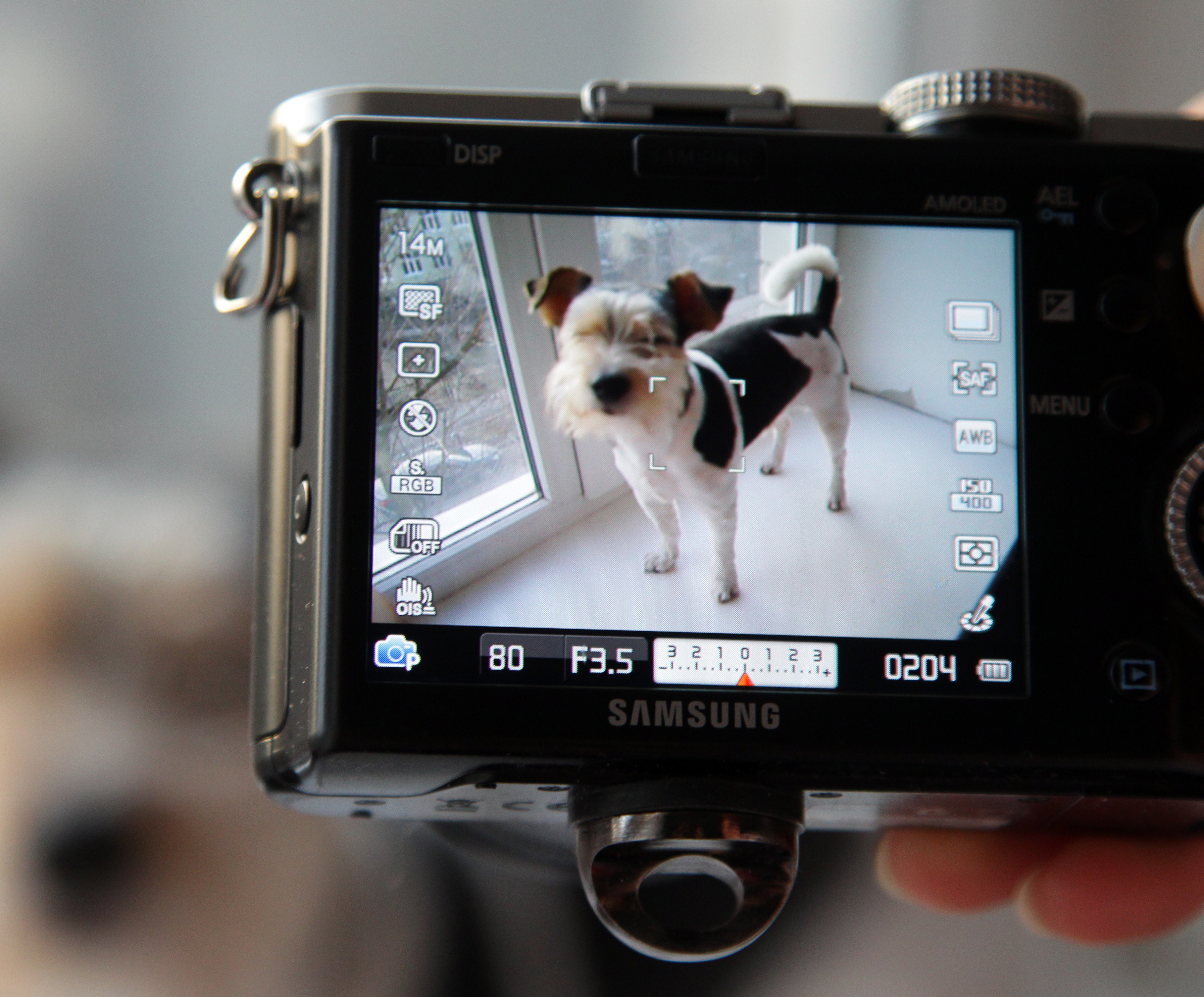 LCD-screen of mirrorless camera Samsung NX-100